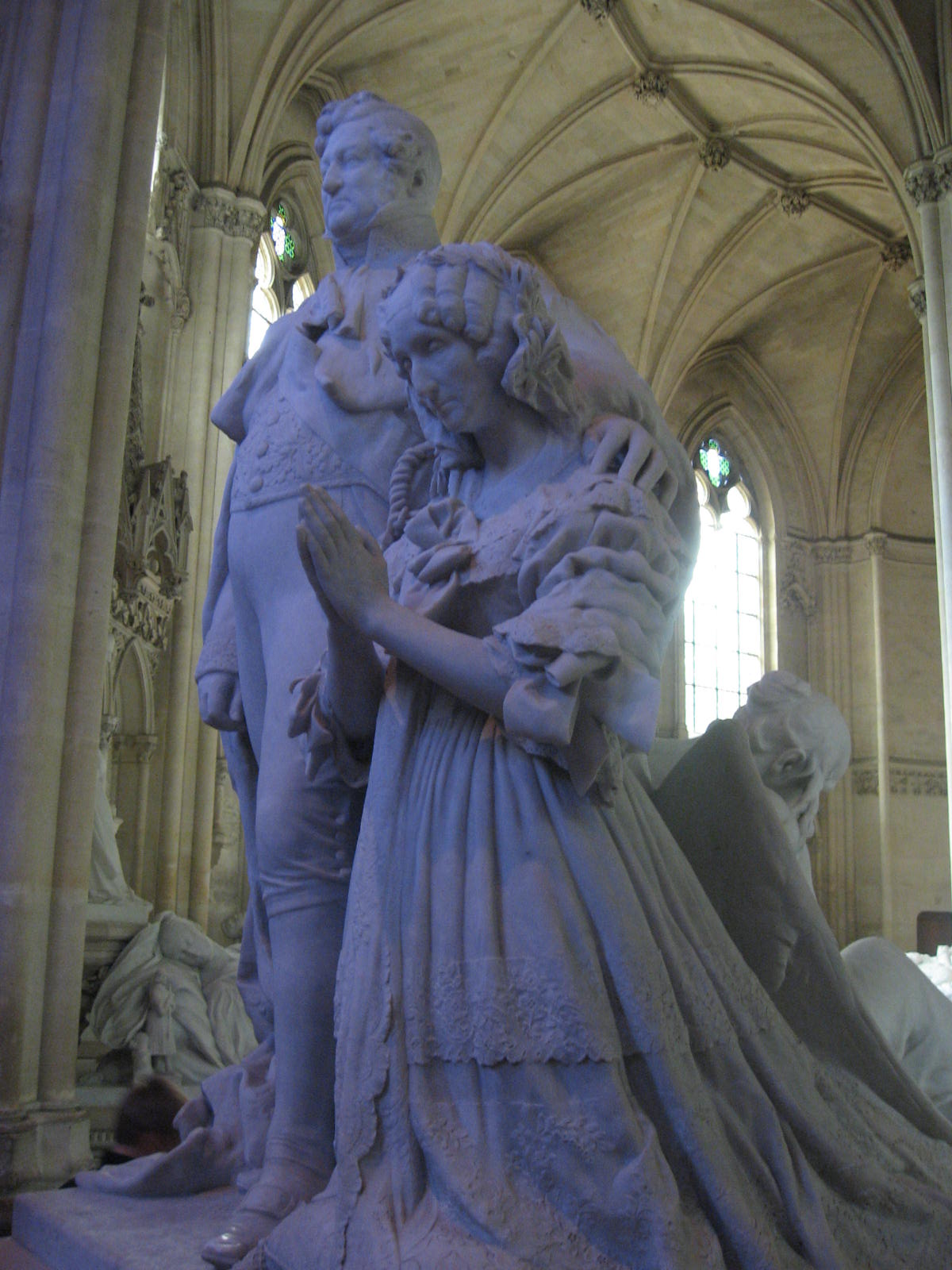 King Louis-Philippe of the French and Queen Marie-Amélie